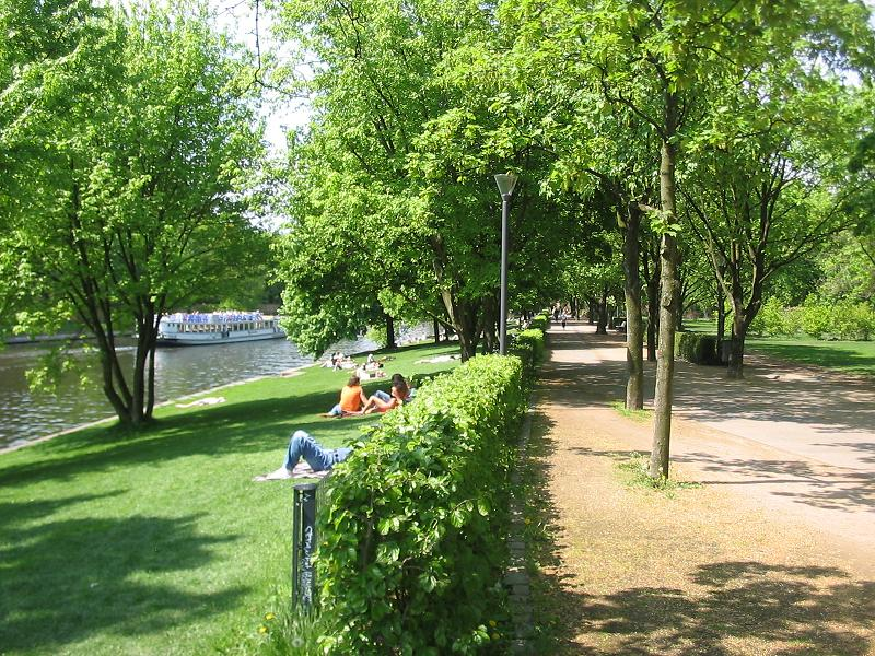 The „Bundespräsidentendreieck“ (in short: Präsidentendreieck) is a parc at river Spree in Berlin-Mitte, opened in 2001. View from the Lutherbrücke (bridge).